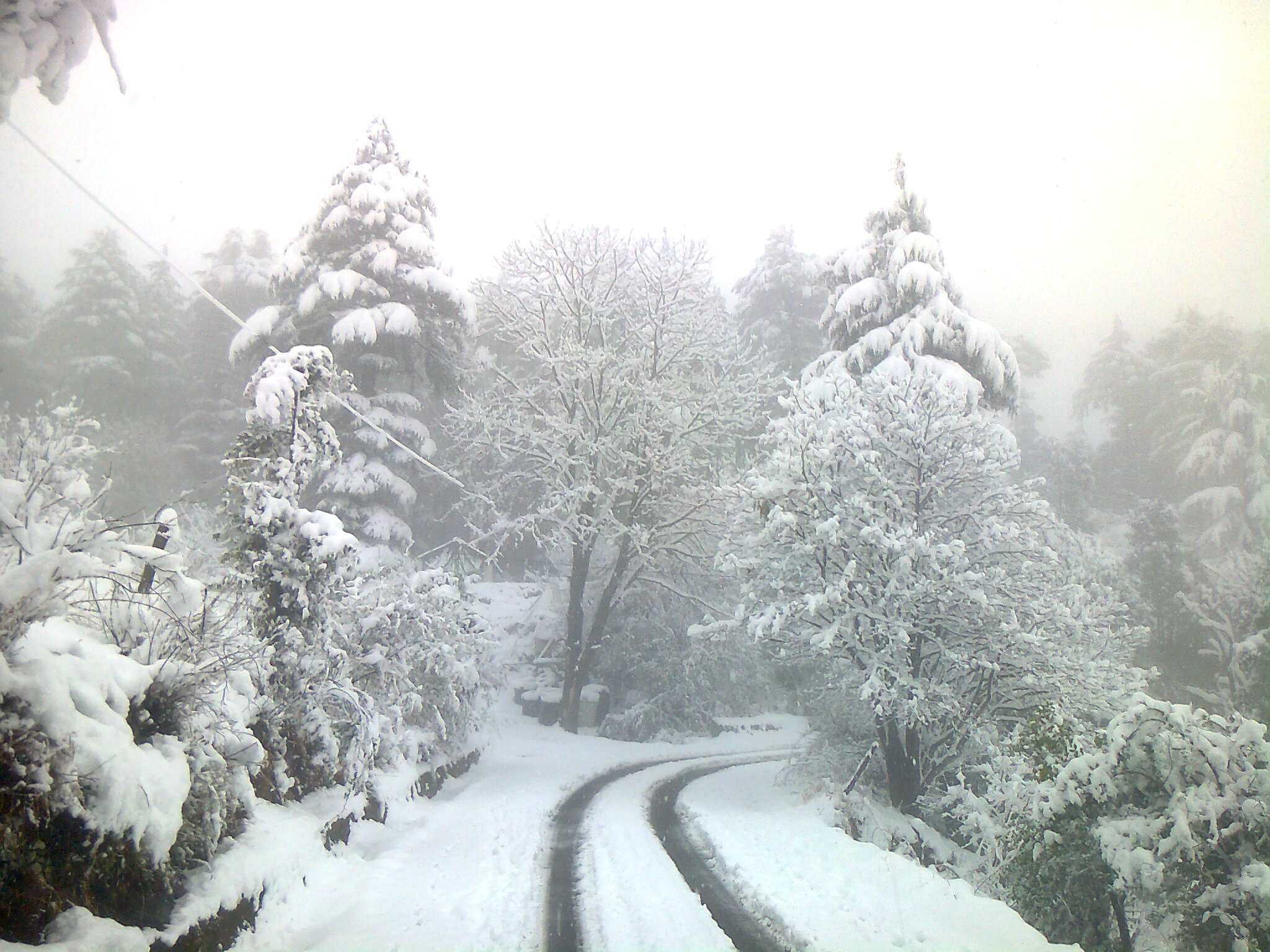 The very gud snowfall just very near the plains.